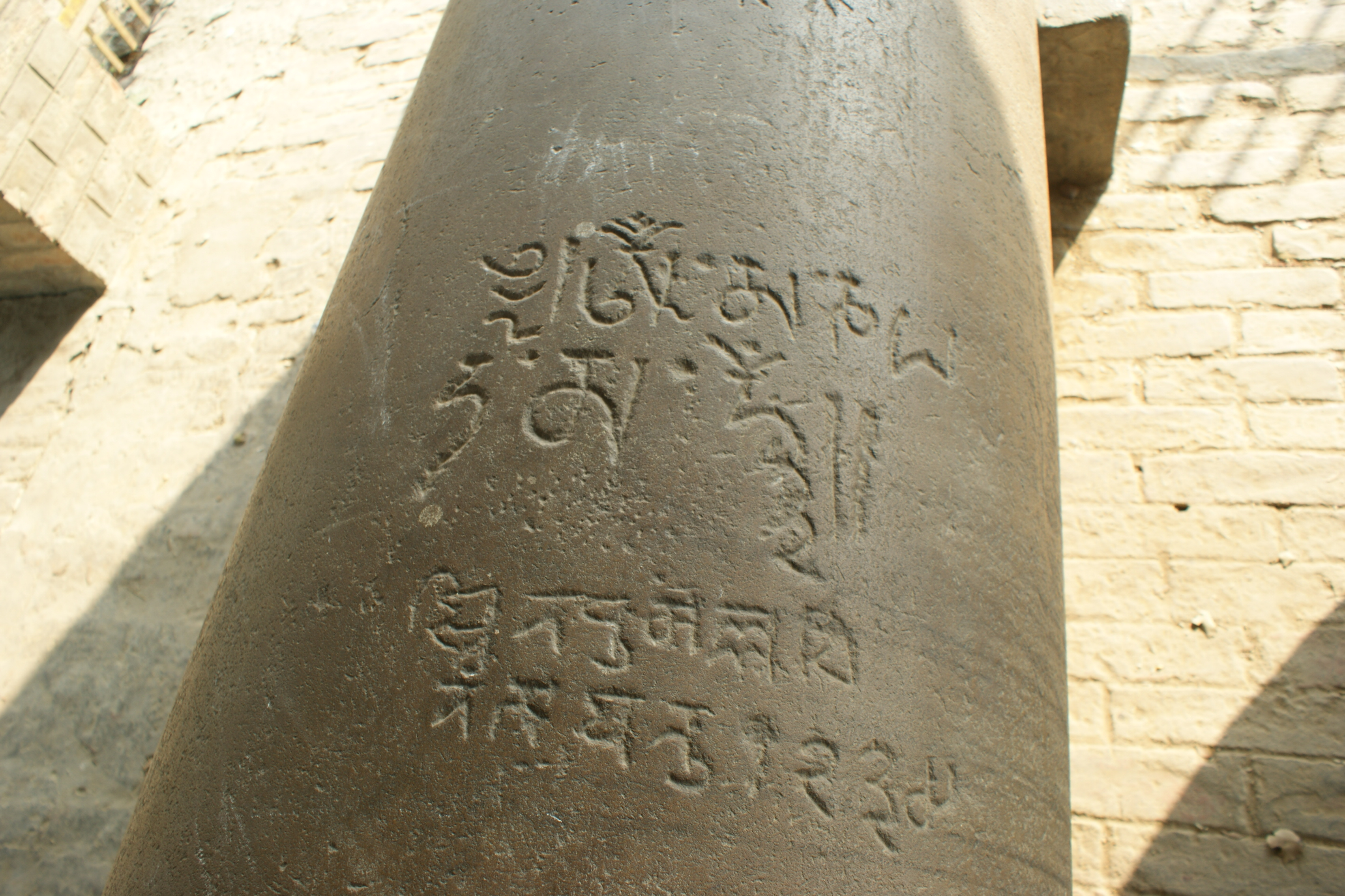 Nigali Sagar pillar 13th century inscription